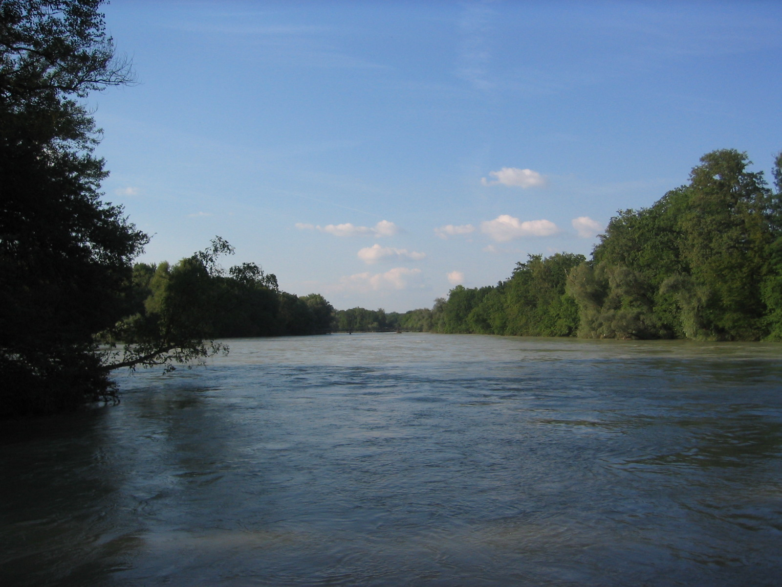 Brugg, Aargau, Switzerland